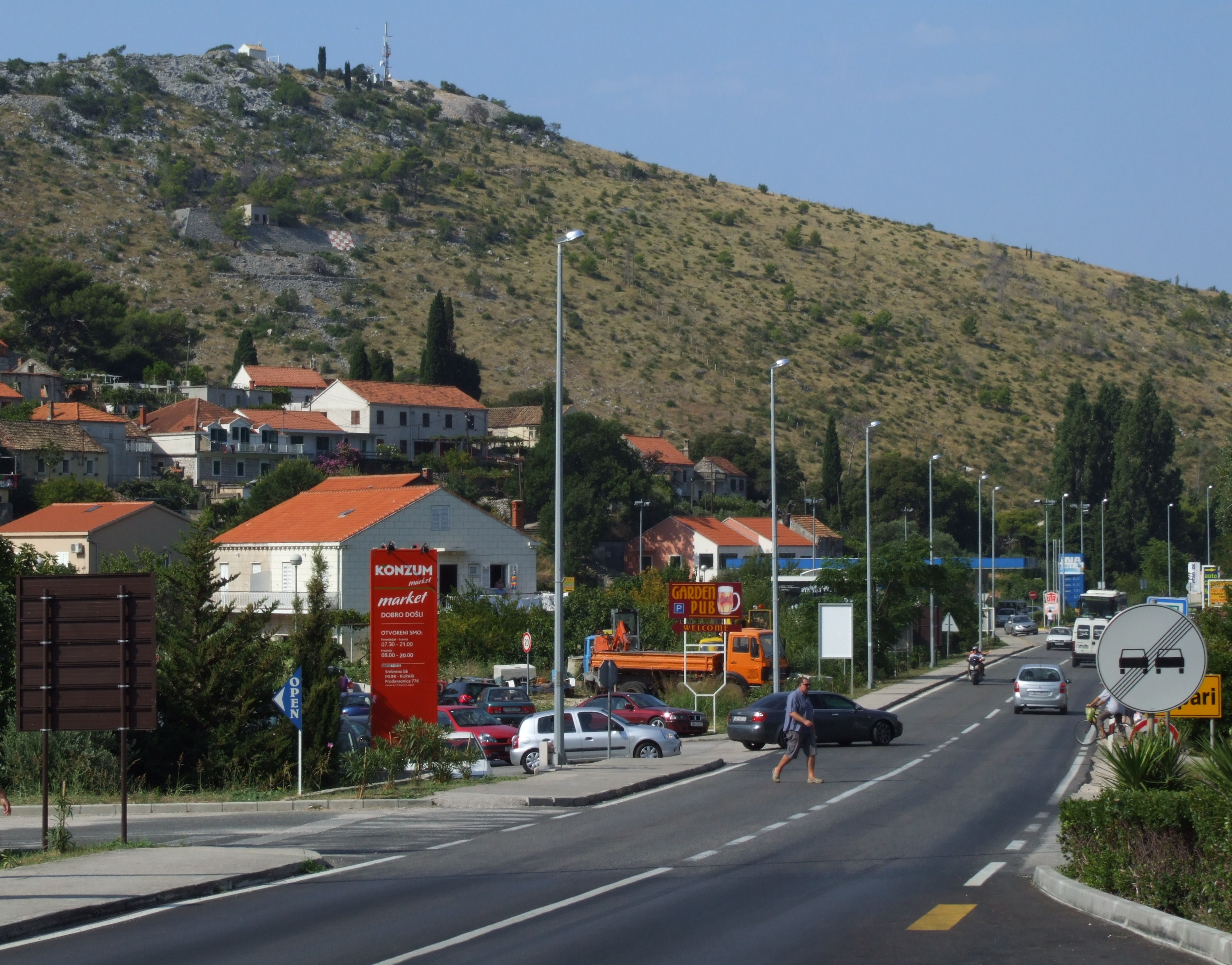 Srebreno / Kupari, Croatia - main street (state road nr 8)